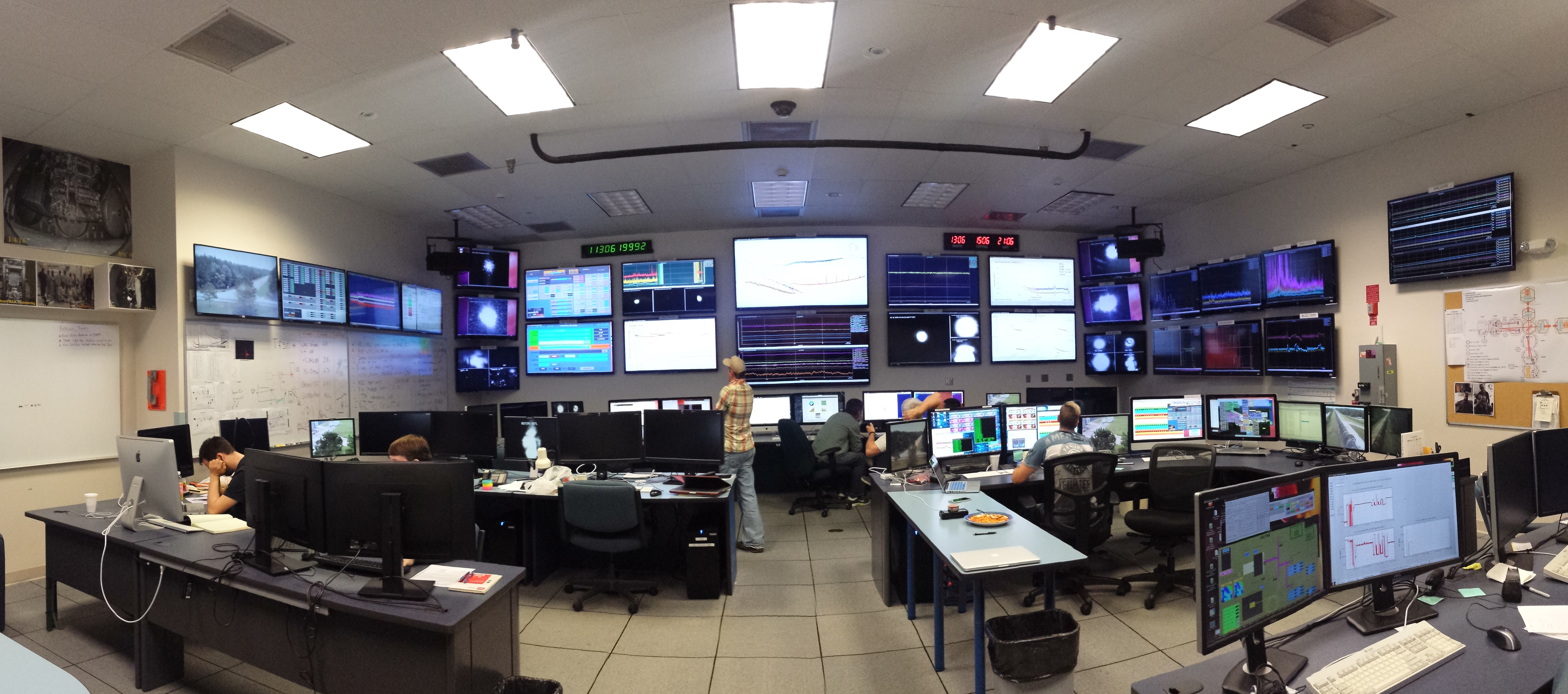 The LIGO Livingston control room as it was during Advanced LIGO's first observing run (O1). This panoramic was sewn together from several images.